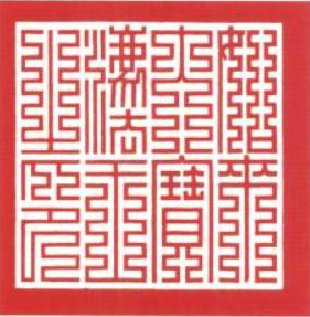 Seal of the Karmapa, white jade seal with a dragon knob, 8.3cm high, each side 12.8cm, preserved in Nor-bu-gling-ka